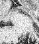 Hurricane Joanne of 1972 on October 1st.